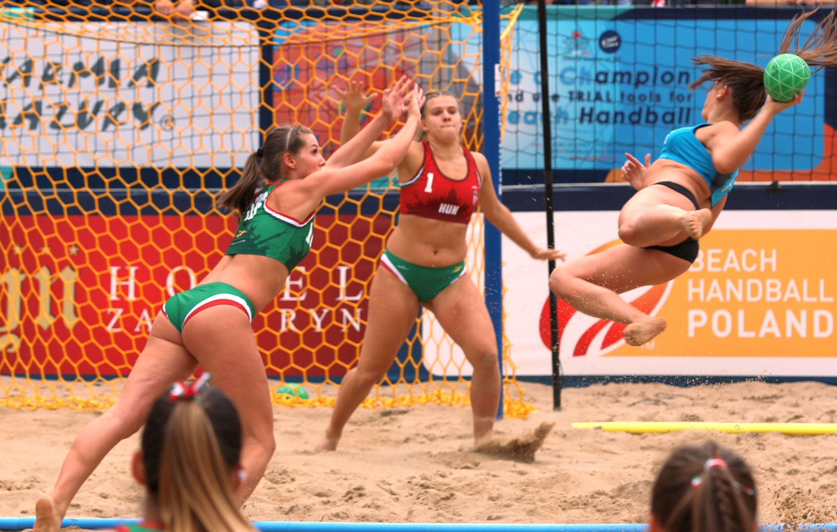 Beach handball Euro; Day 6: 7 July 2019 – Women's Final – Denmark-Hungary 2:0 (18:12, 23:22)